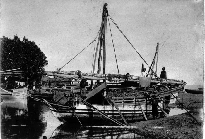 Proa